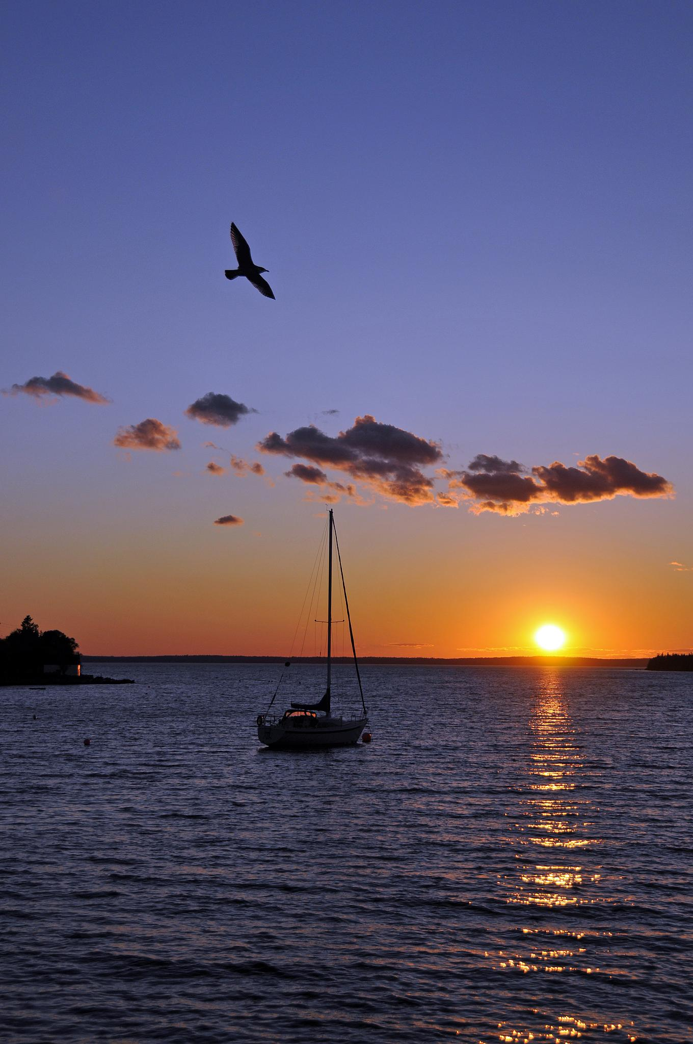 Sunset at Seabright, it seemed like there were good clouds in the sky so I went there after dinner. Seabright, Nova Scotia, Canada